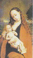 Photo of original Flemish Art attributed to Rogier van der Weyden or to his school of art (15th Century)